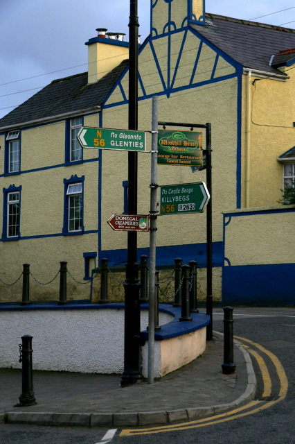 Ardara - Road signs in town centre along N56 This road off N56 (Main Street) in Ardara town centre just west of the bridge was my route to the Gort na Mona B&B.